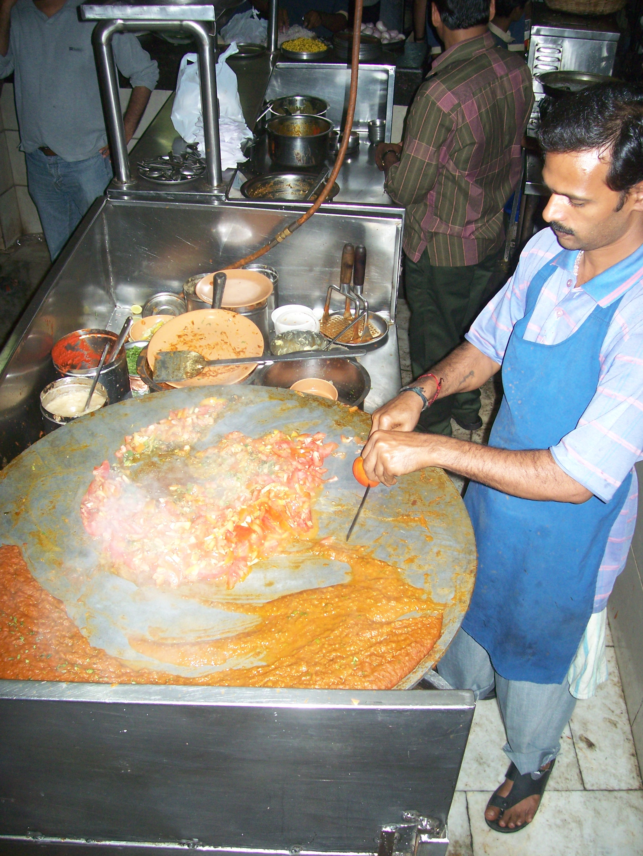 Preparation of Pav Bhaji